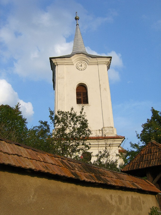 View from Horlacea, Cluj county, Romania